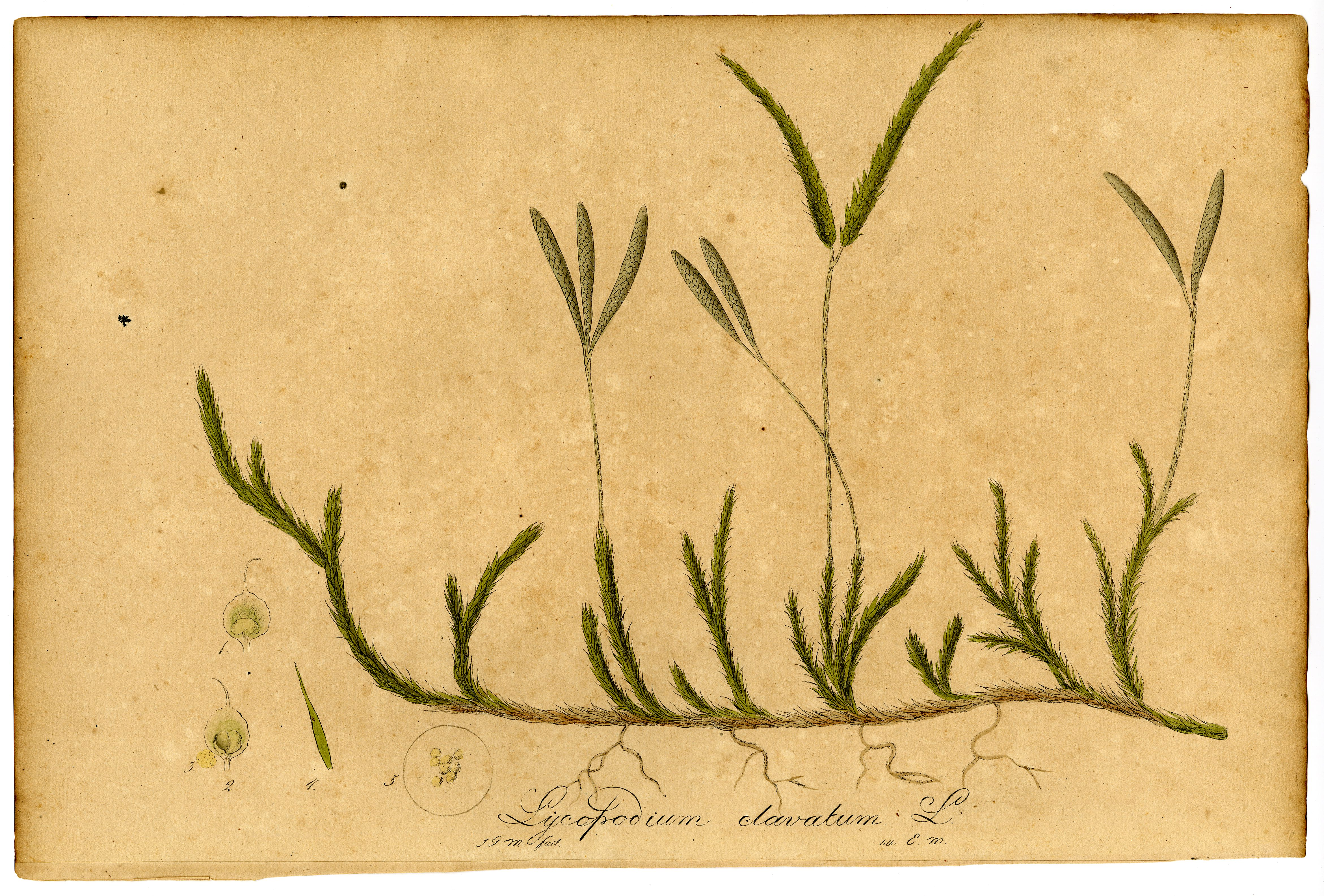 Lycopodium clavatum